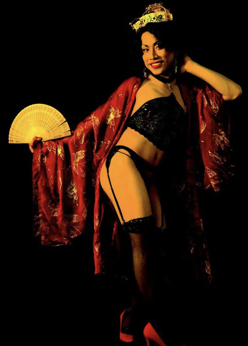 Chinatown burlesque performer in Melbourne, 1930s